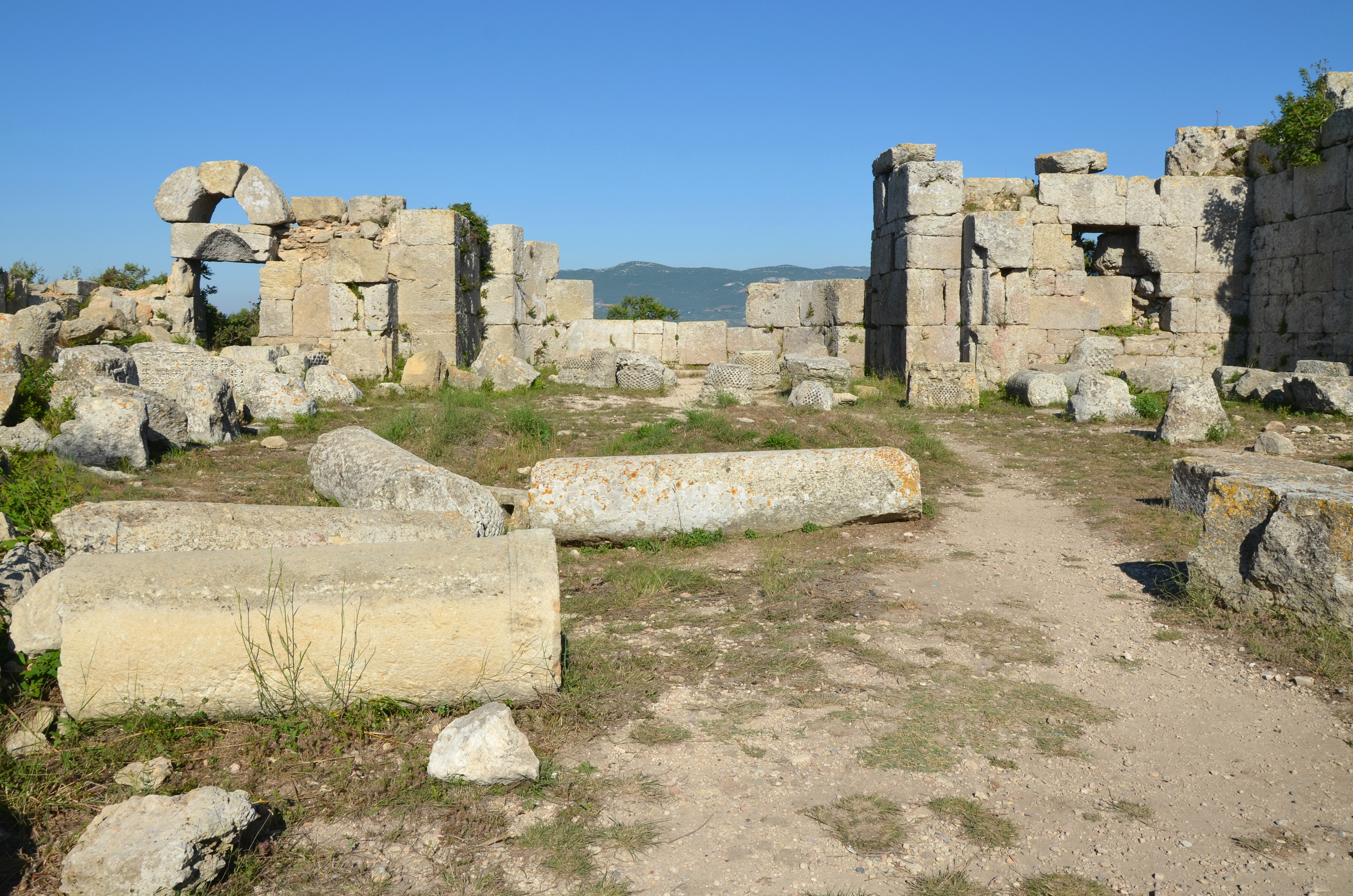 Monastery of St. Simeon Stylites the Younger, province of Hatay, Turkey